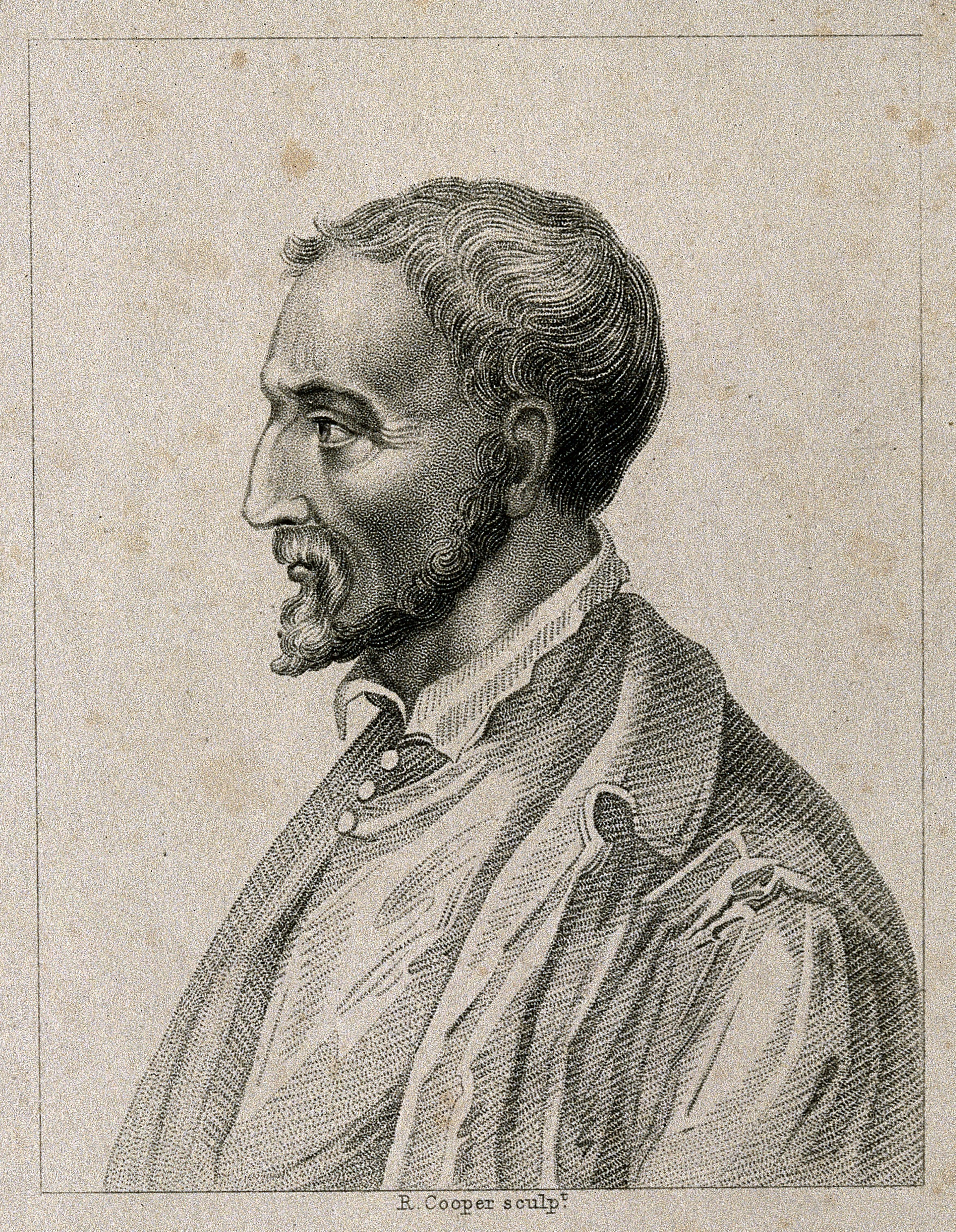 Girolamo Cardano. Stipple engraving by R. Cooper. Iconographic Collections Keywords: portrait prints; cardanus, hieronymus, 1501-157; stipple prints; Hieronymus Cardanus; R. Cooper